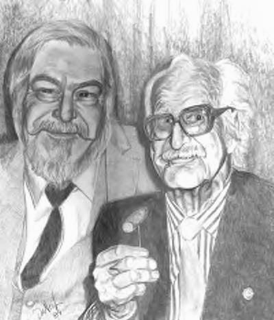 Portrait of magicians Larry Jennings (left) and Dai Vernon (right)